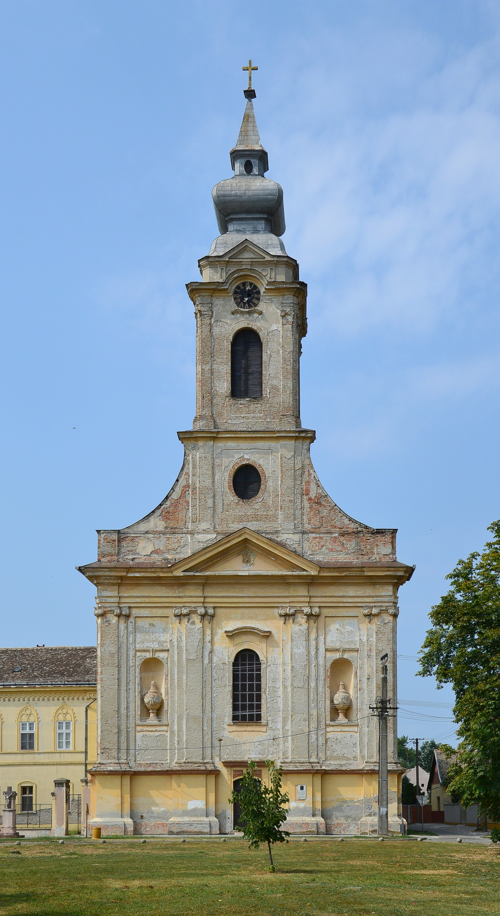 Saint Paul's Church in Bač (Bács), Vojvodina, Serbia